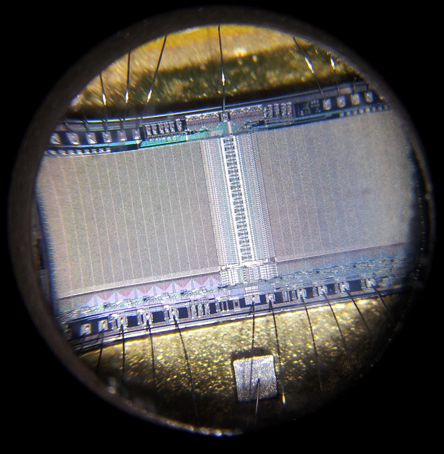 A view through the window of an AMD 27128 ultraviolet-erasable EPROM, revealing the UV-sensitive silicon chip at the heart. The chip was manufactured in 1982, and commonly used to store data such as configuration settings or a basic input-output system (BIOS) in electronic devices prior to the commercialisation of more convenient EEPROM and NAND flash components.